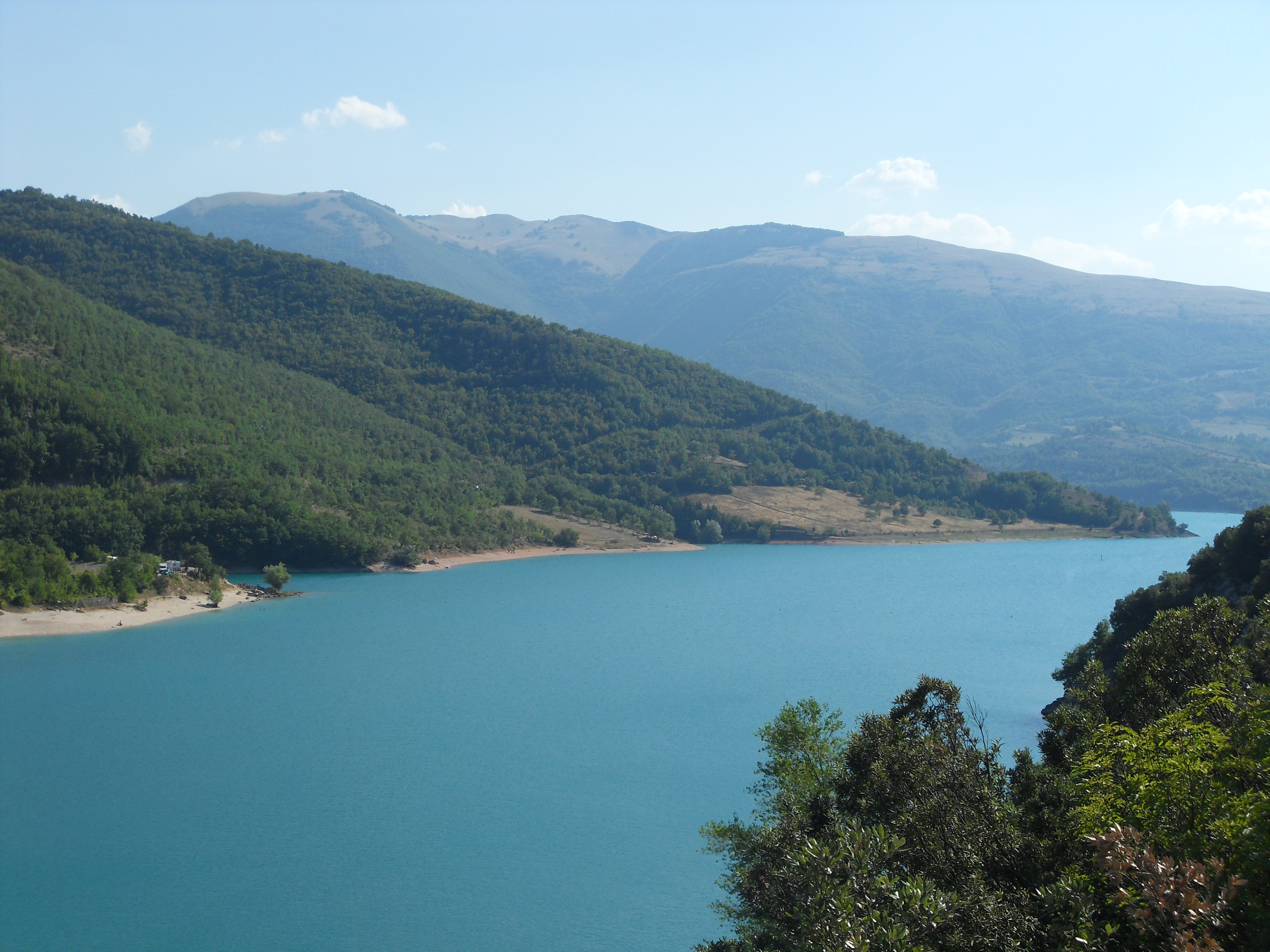 Il Lago di Fiastra